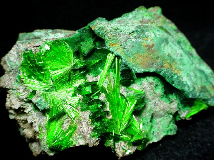 Cuprosklodowskite, Metatorbernite Locality: Musonoi Mine, Kolwezi, Western area, Katanga Copper Crescent, Katanga (Shaba), Democratic Republic of Congo (Zaïre) (Locality at ) This gorgeous specimen features EXCEPTIONAL crystals of both species, but in particular the Cuprosklodowskite ! The Cuprosklodowskite crystals reach almost 1 inch in length and have an amazing metallic green brilliance to them, which contrasts with the darker transparent green of the torbernites (which are so sharp you can see why sometimes they turn up labeled as "green wulfenite"!). This is from old finds of this material, and dates to the 1970s I am told, in contrast to recent finds (admittedly, in quantity), much of which just didn't quite have the brilliant iridescence combined with length of the best of these older crystals. I also cannot recall seeing as fine an association of the two species in the recent finds of CS from this locality, come to think of it, clearly confirming this as an older specimen. 6.5 x 4.5 x 4 cm